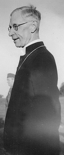 Swedish bishop Gustaf Aulén (1879-1977)